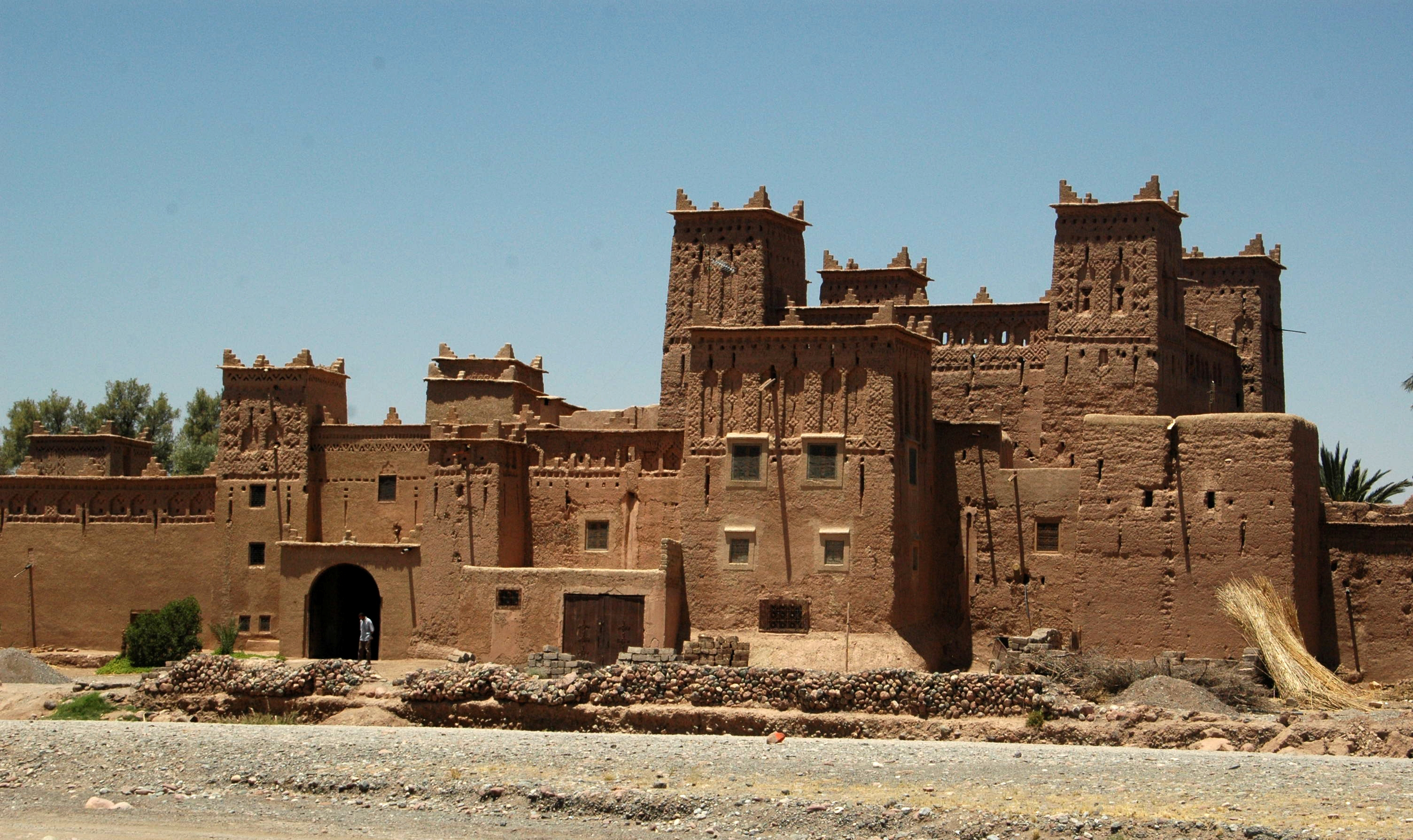 This 17th-century qasbah in the Skoura palm grove in Morocco is built with the traditional pisé, also known as pisé de terre, or rammed earth. This is an age-old building method which has re-emerged in recent years as people seek low-impact building materials and natural building methods. Traditionally, rammed earth buildings are common in arid regions where wood is in scarce supply. Rammed earth construction entails compressing a damp mixture of earth that has suitable proportions of sand, gravel and clay (sometimes with an added stabilizer) into an external supported frame that molds the shape of a wall section creating a solid wall of earth. Traditional stabilizers such as lime or animal blood were used in the past, but cement has become the stabilizer of choice. After compression the wall frames are removed and require an period of warm dry days after construction to dry and harden. The structure can take up to two years to completely cure, and the more it cures the stronger the structure becomes. Source: Wikipedia